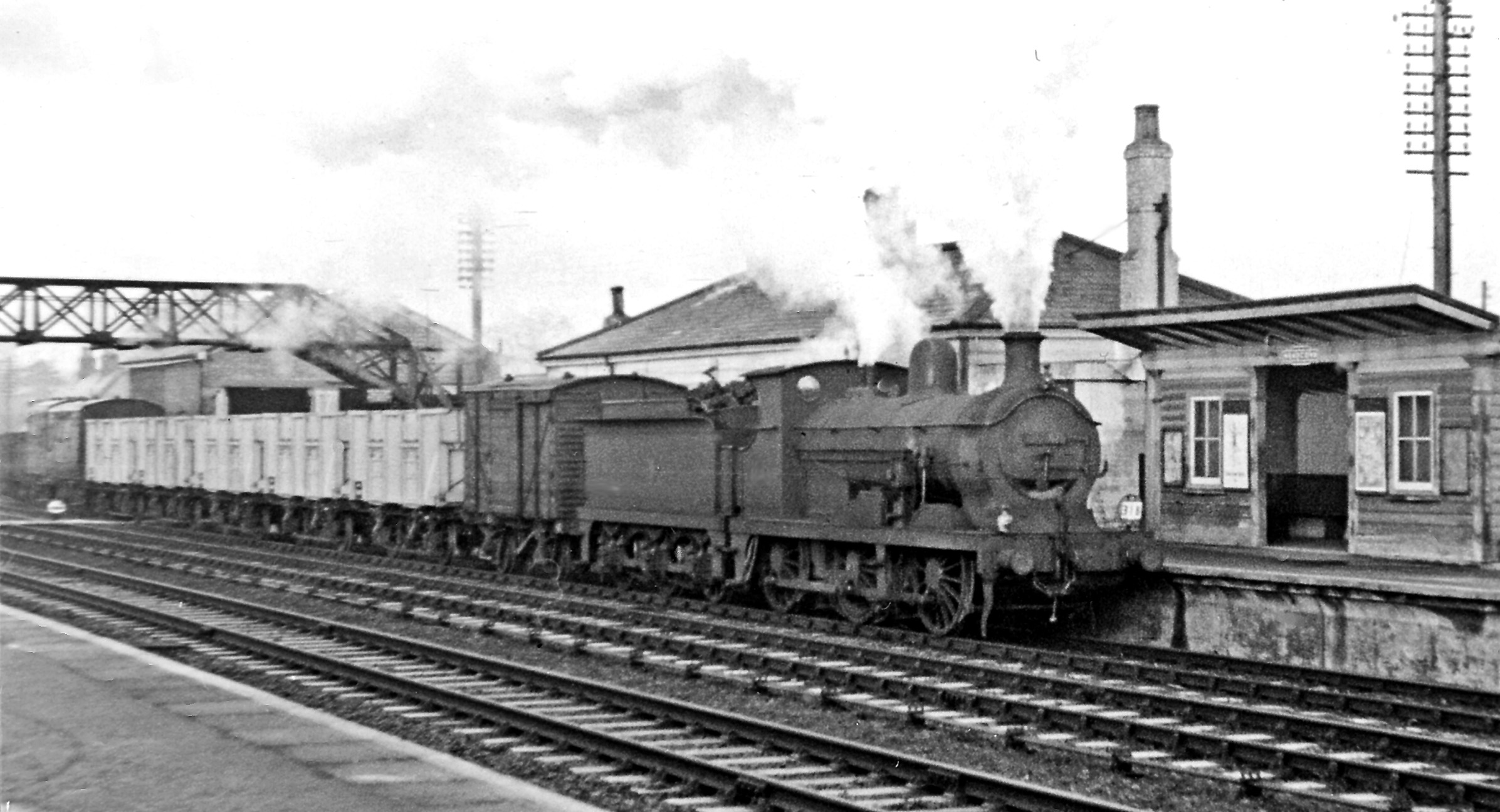 Headcorn station, with 0-6-0 on goods. View eastward, towards Ashford etc.: ex-SE&C Tonbridge - Ashford main line, junction of the Kent & East Sussex Light Railway - on its Last Day (2/1/54). The locomotive is ex-SE&C Wainwright class C No. 31588 (built 3/1908, withdrawn 6/62).